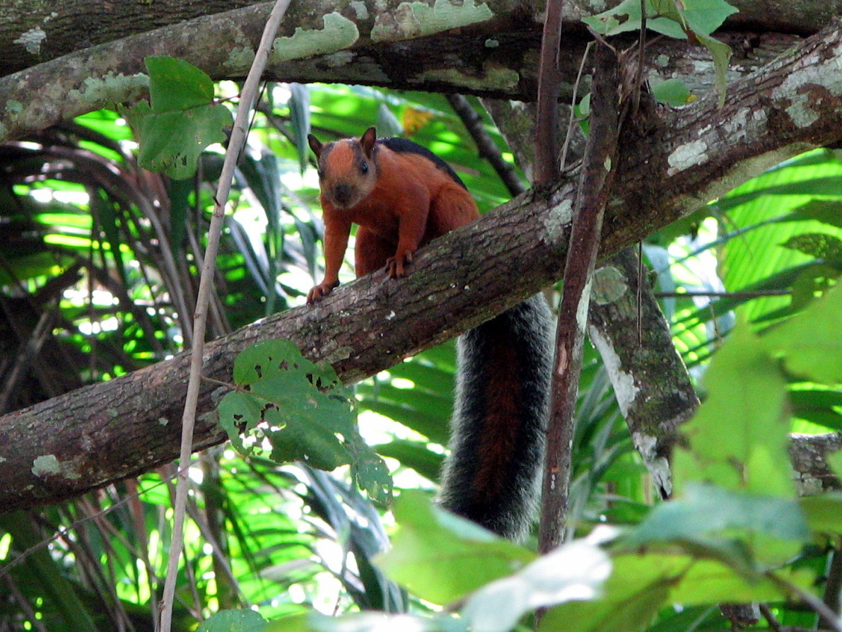 Sciurus variegatoides in Curú Wildlife Refuge, Costa Rica